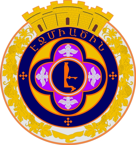 COA_Of_Vagharshapat (Ejmiatsin) city in Armenia